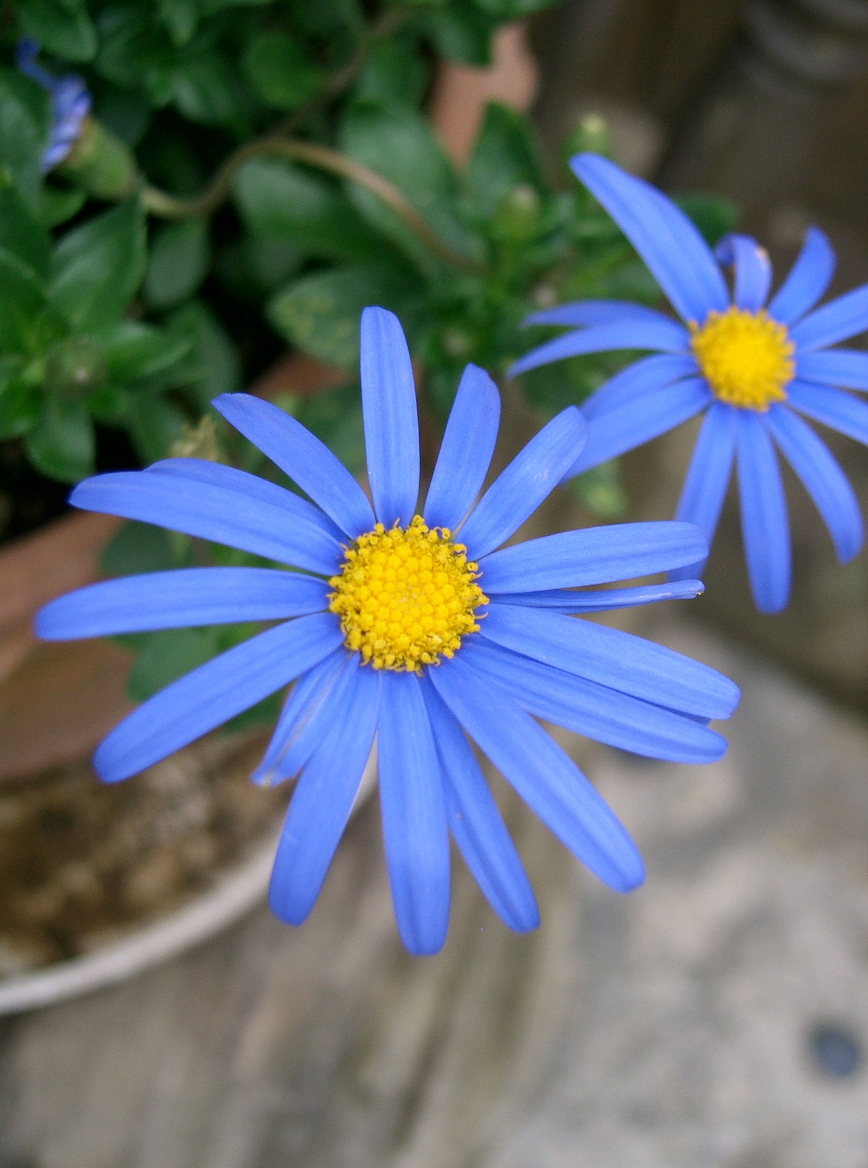 Felicia amelloides, Osaka-fu Japan